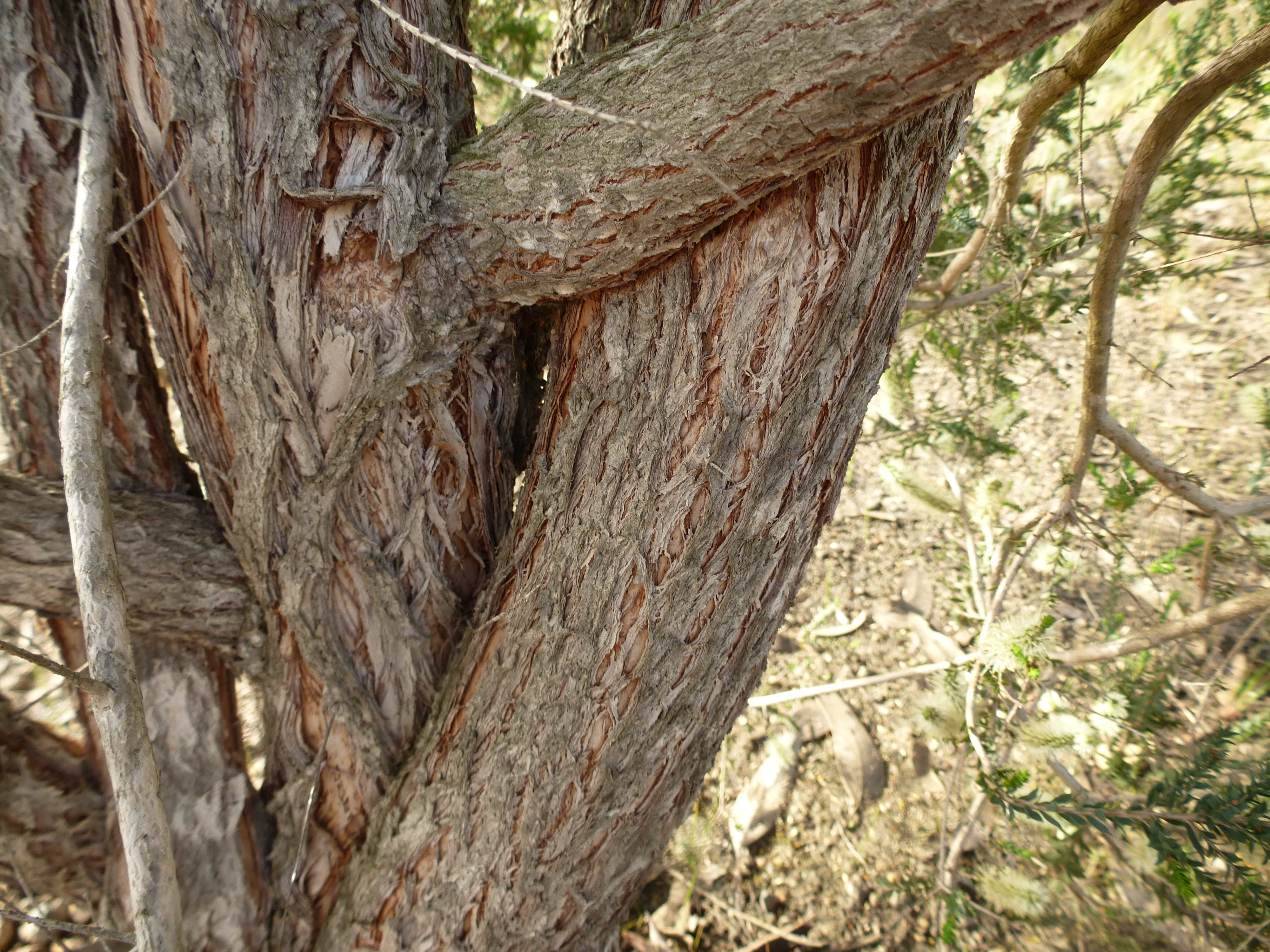 Melaleuca viminea growing on a roadside near Mount Barker